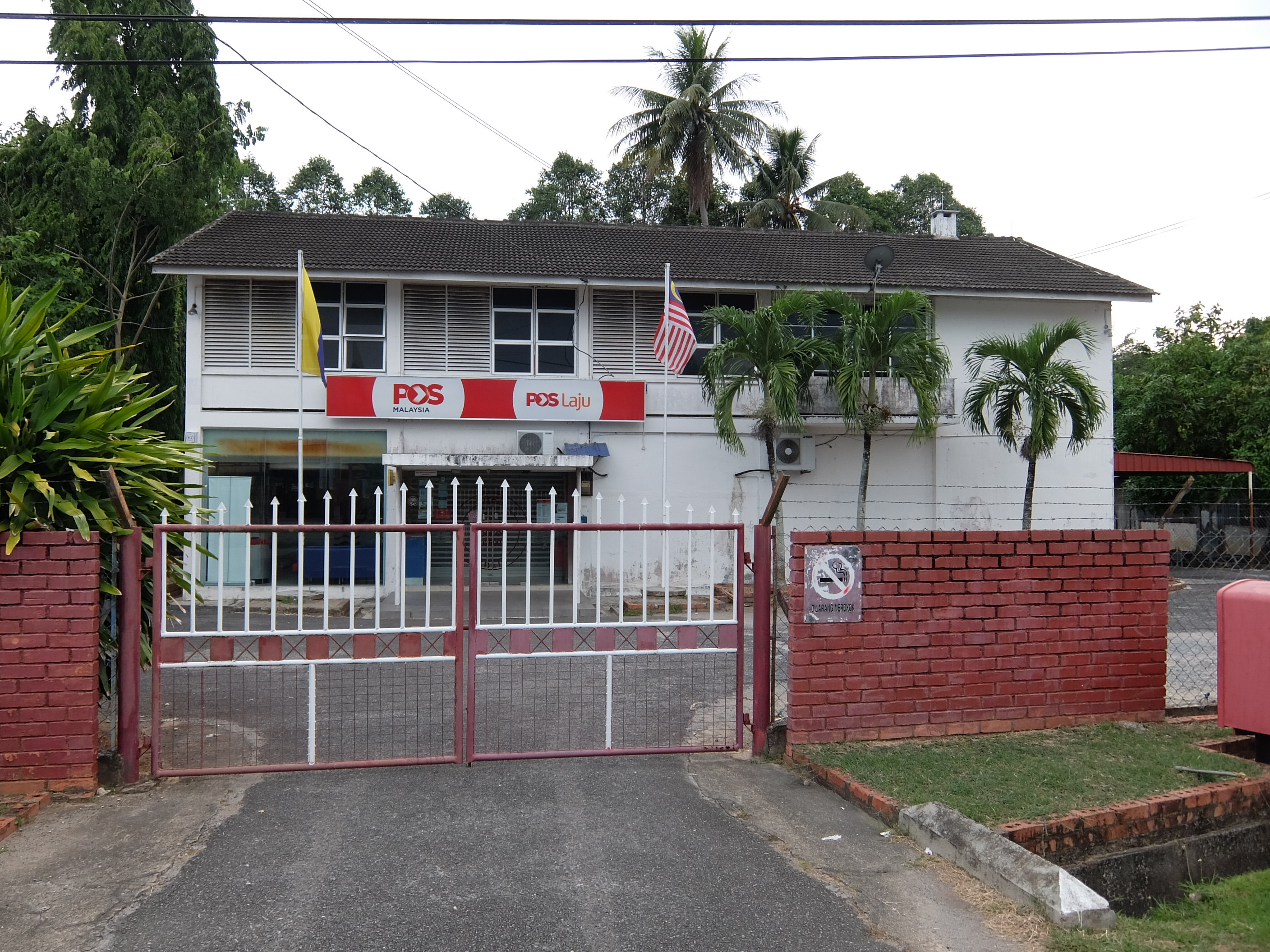 Pos Malaysia Arau Post Office, Arau, Perlis, Malaysia